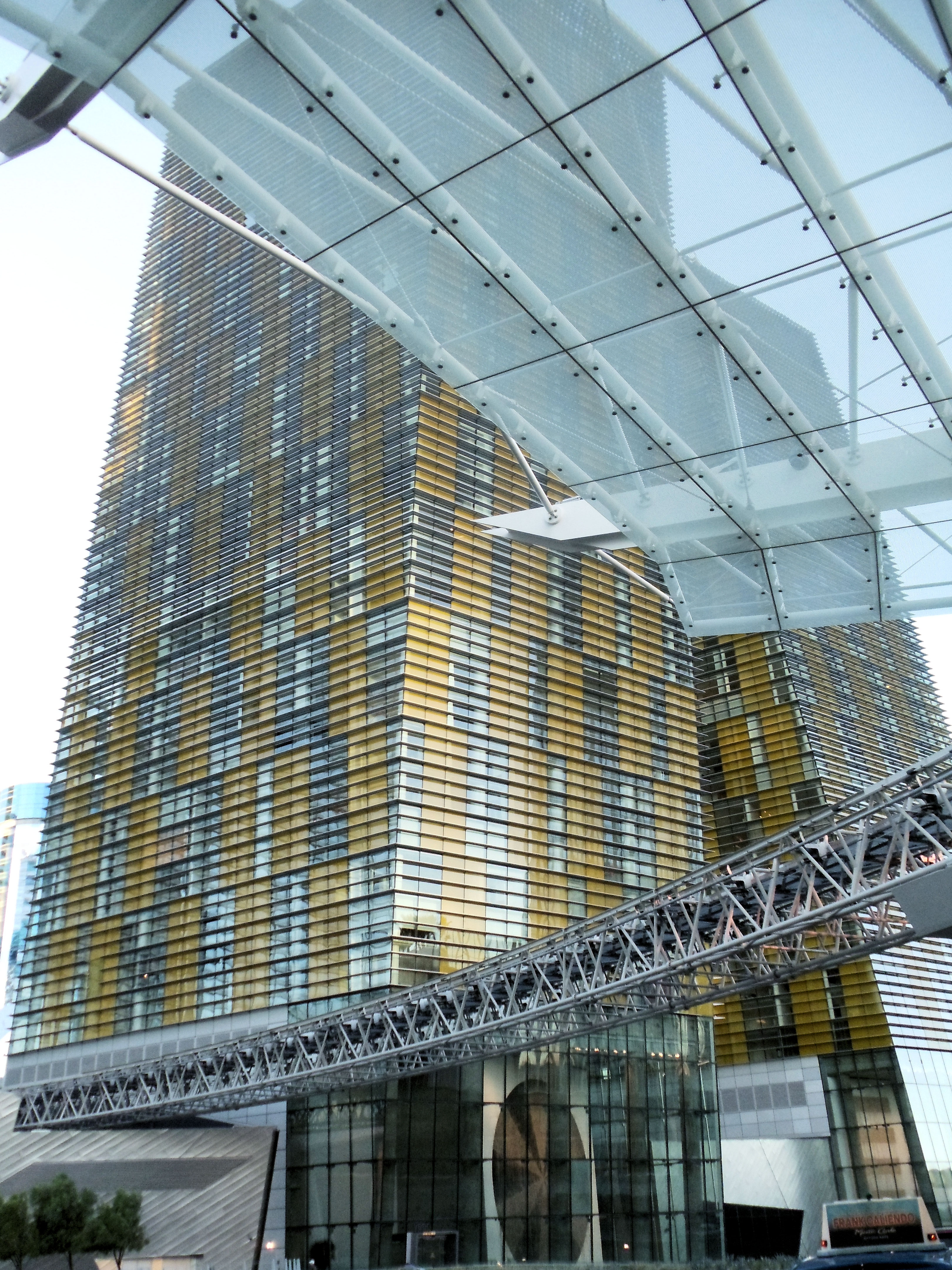 Artfully inclined at dramatic opposing angles, Veer Towers is the new pair of arresting residential icons in the hub of CityCenter Two 37-story silhouetted glass towers with approximately 335 residences each rise from Crystals, CityCenter's spectacular retail and entertainment district, giving residents unprecedented access to the best of stylish, big city living Featuring modern, loft-like residences available in studios, deluxe studios, one, two and three bedroom flats and penthouses ranging from 500 to nearly 3.300 square feet Atop each striking tower enjoy an amenities and recreation floor with unequaled views of Las Vegas complemented by an infinity edge pool, sun deck, patio for outdoor entertaining and fitness center. Architectural design realized by Helmut Jahn